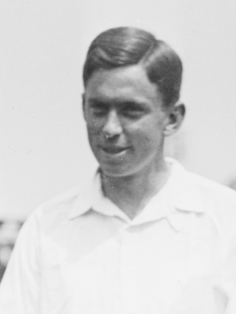 Bain News Service, publisher. McLoughlin and Rice [tennis] [no date recorded on caption card] 1 negative : glass ; 5 x 7 in. or smaller. Notes: Title from unverified data provided by the Bain News Service on the negatives or caption cards. Forms part of: George Grantham Bain Collection (Library of Congress). Format: Glass negatives. Repository: Library of Congress, Prints and Photographs Division, Washington, D.C. 20540 USA, General information about the Bain Collection is available at Persistent URL: Call Number: LC-B2- 2712-10